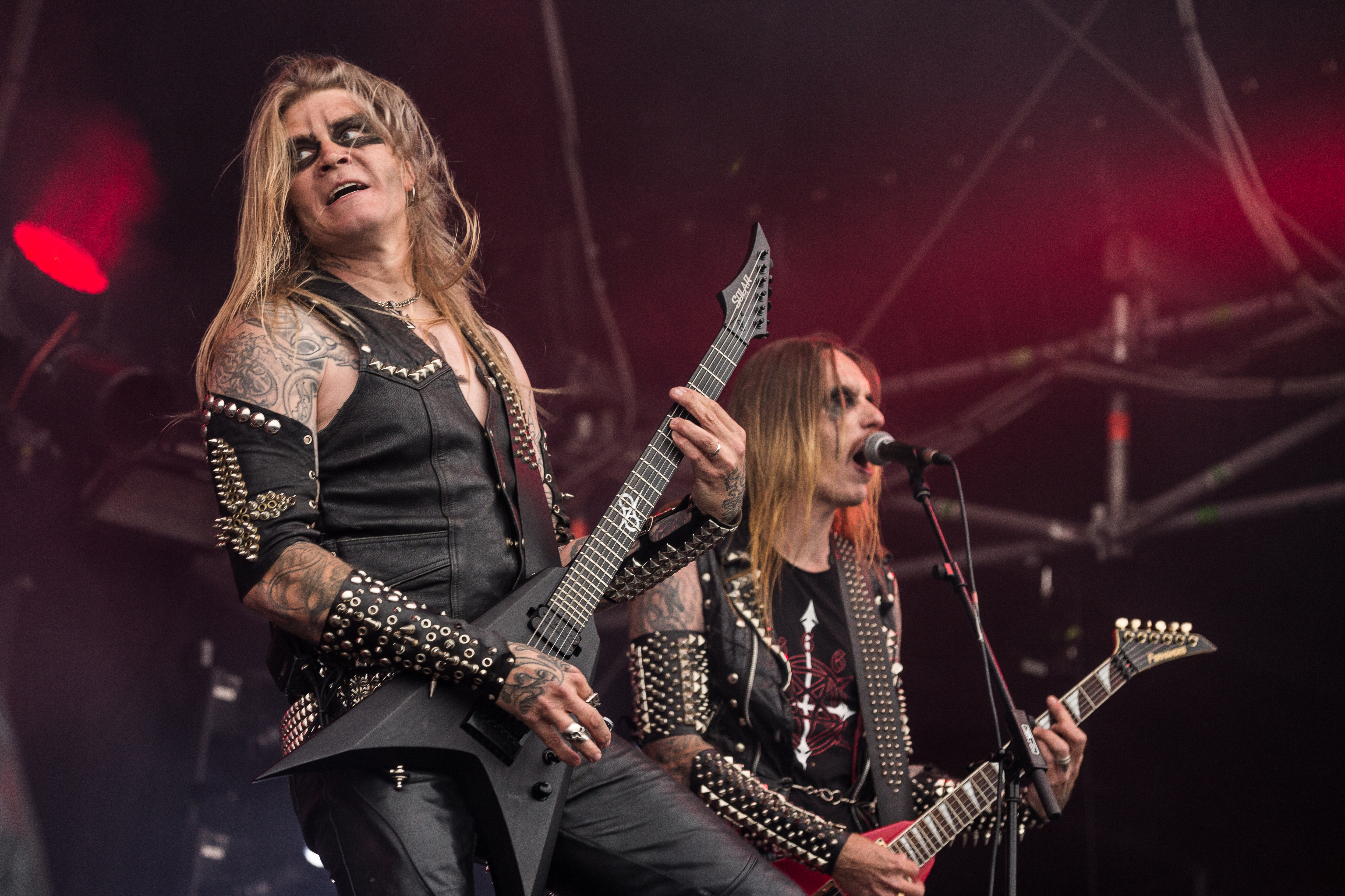 The Swedish death/black metal band Necrophobic at the Party.San Metal Open Air 2017 in Obermehler-Schlotheim/Germany.